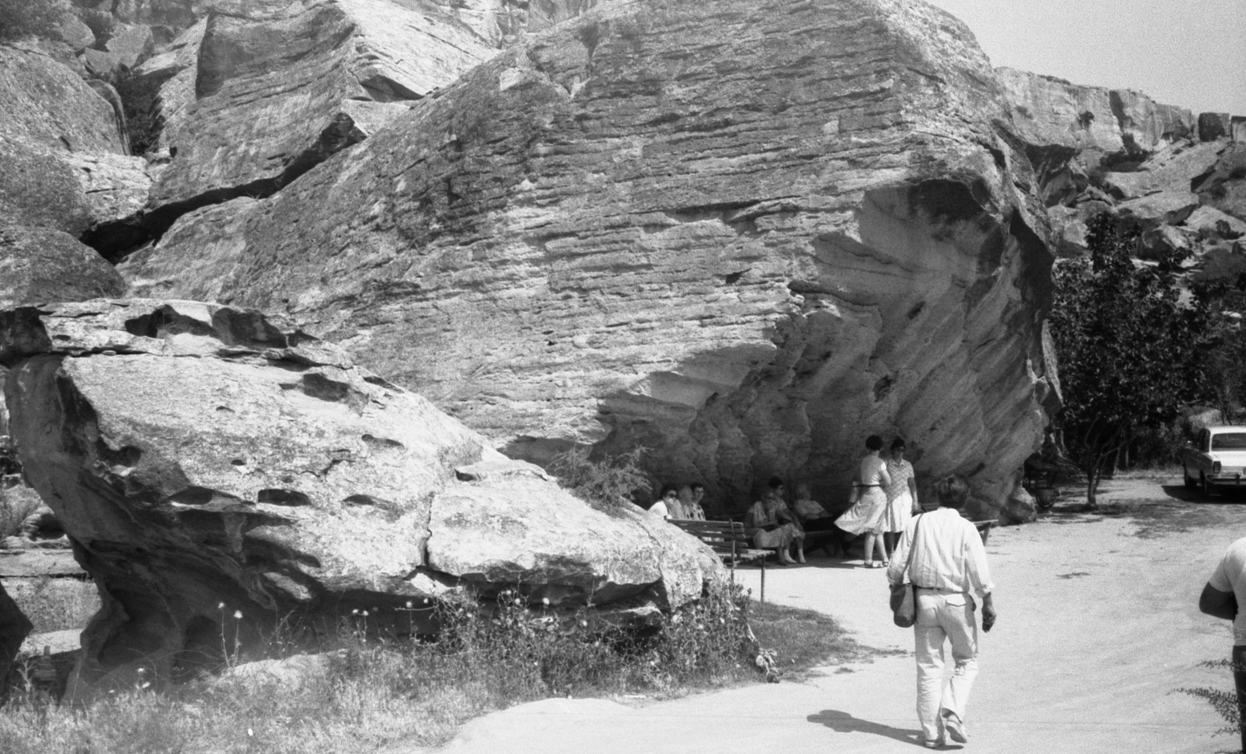 caves of Gobustan 1987